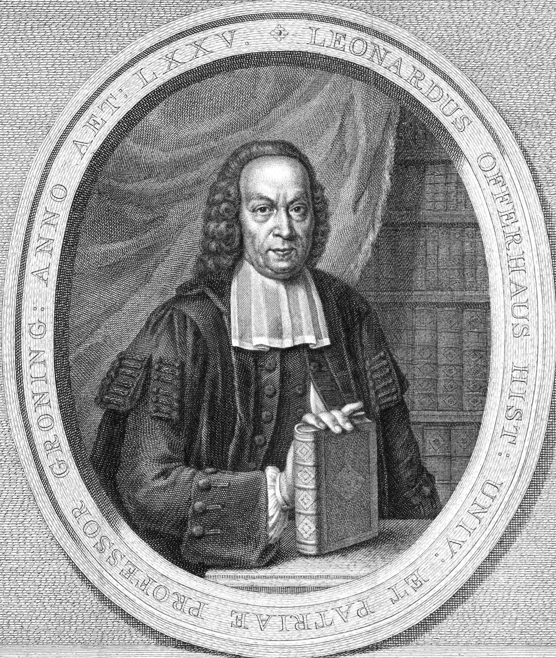 Leonard Offerhaus (1699-1779) German historians in the Netherlands